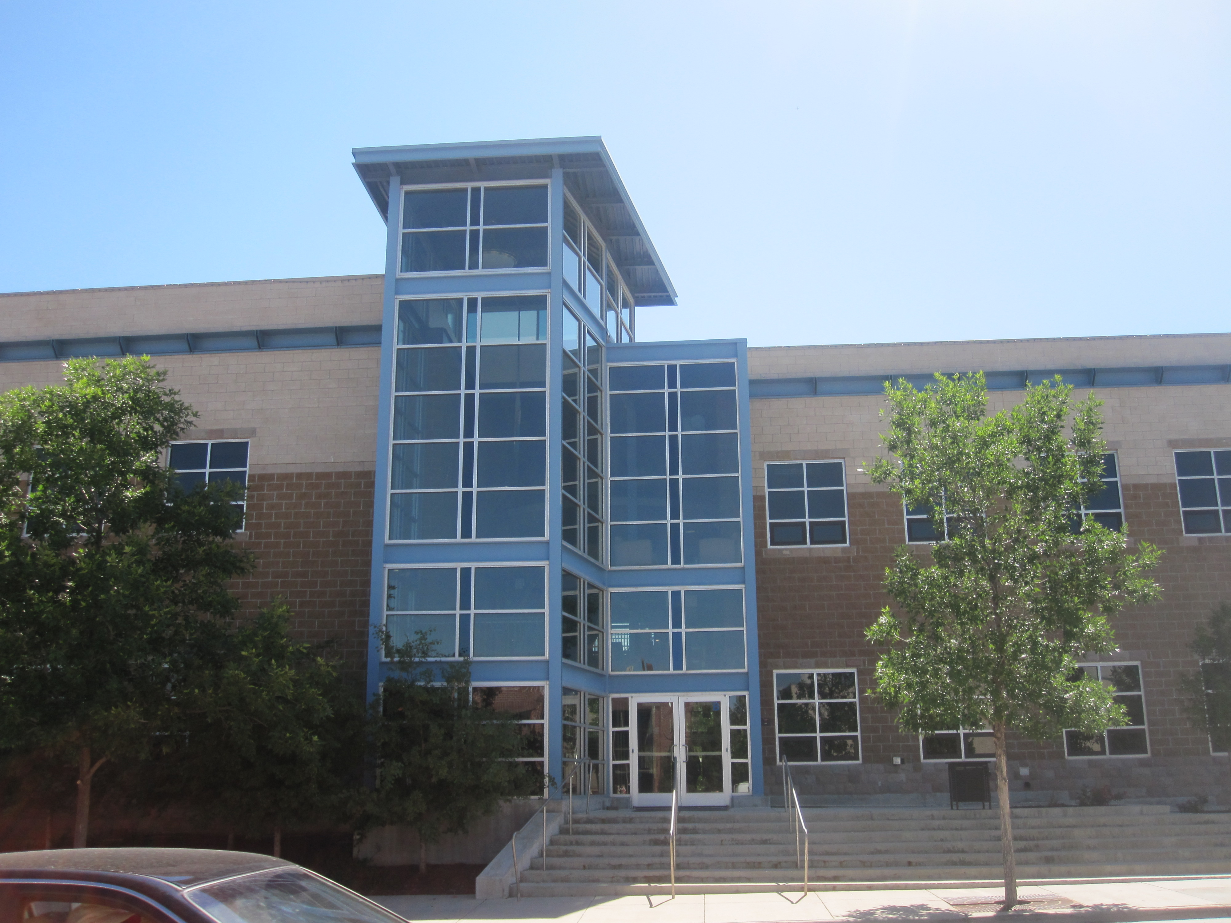 I took photo with Canon camera in Castle Rock, CO.